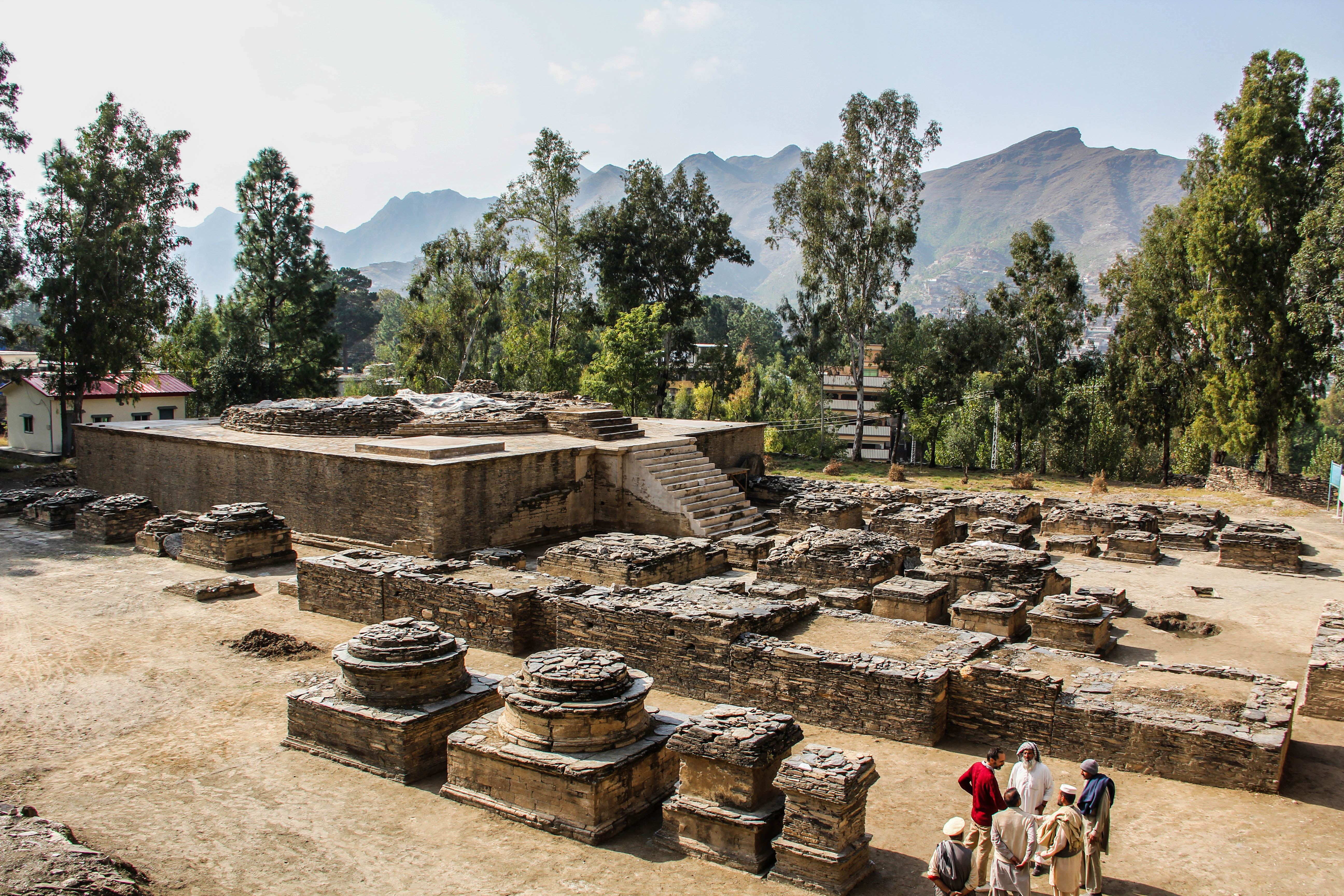 Saidu stupa is the 1st to 5th century Buddhist stupa at Saidu Sharif, Swat valley. This is a photo of a monument in Pakistan identified as the KPK-68